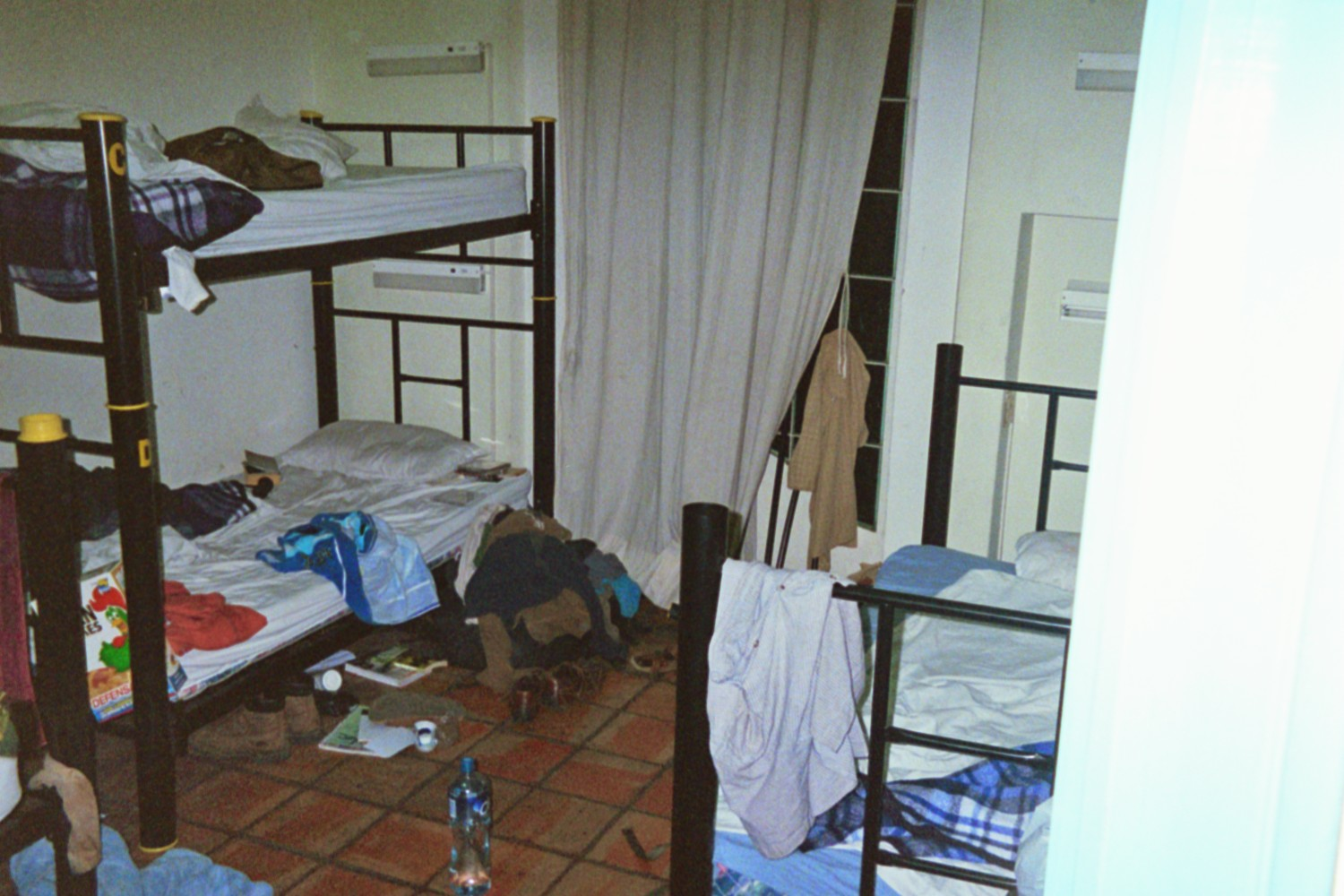 Youth Hostel in Guadalajara, Jalisco, Mexico.